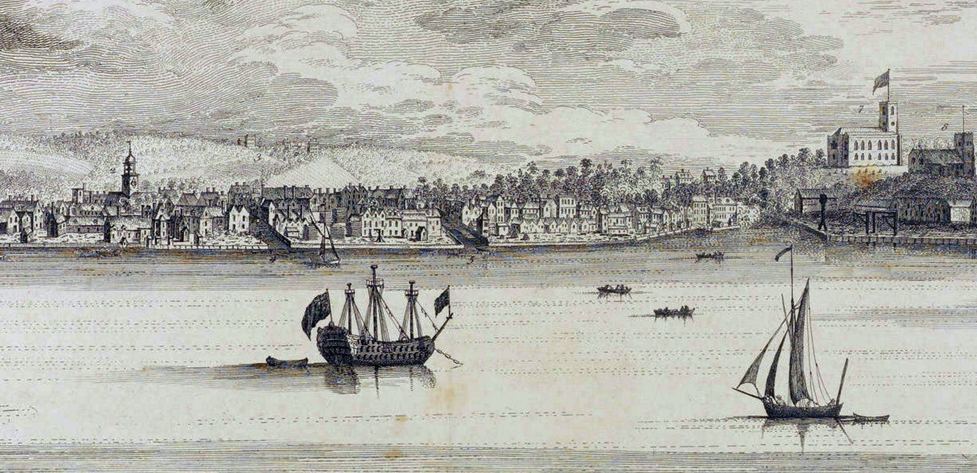 The north prospect of Woolwich, in the county of Kent. Detail of a view of Old Woolwich and Woolwich Dockyard. The bell tower to the left belonged to the Royal Ropeyard. To the right a rare view of the Medieval and Georgian parish church, which only existed together for 2 or 3 years. Engraving by Samuel and Nathaniel Buck (1739). Collection of the London Metropolitan Archives.